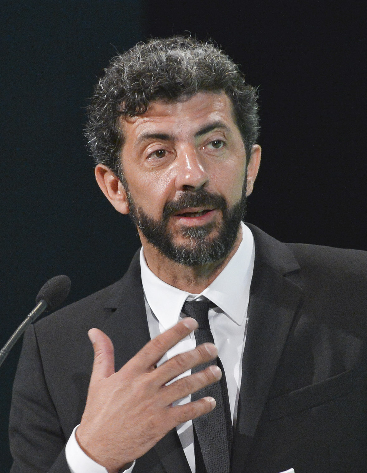 15.02.28 Foto Discurso Hijo Predilecto